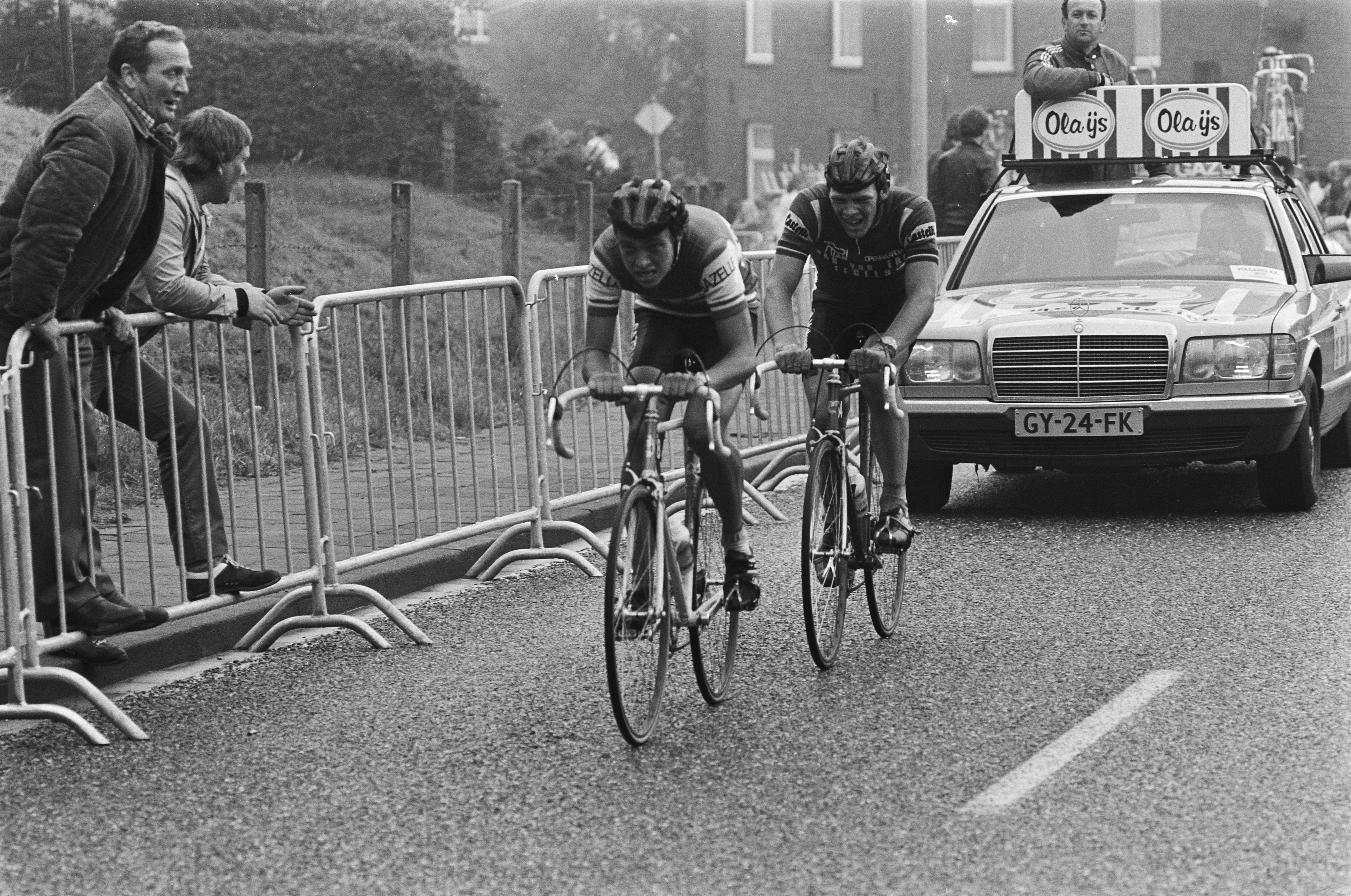 Dutch cycling championship 1981